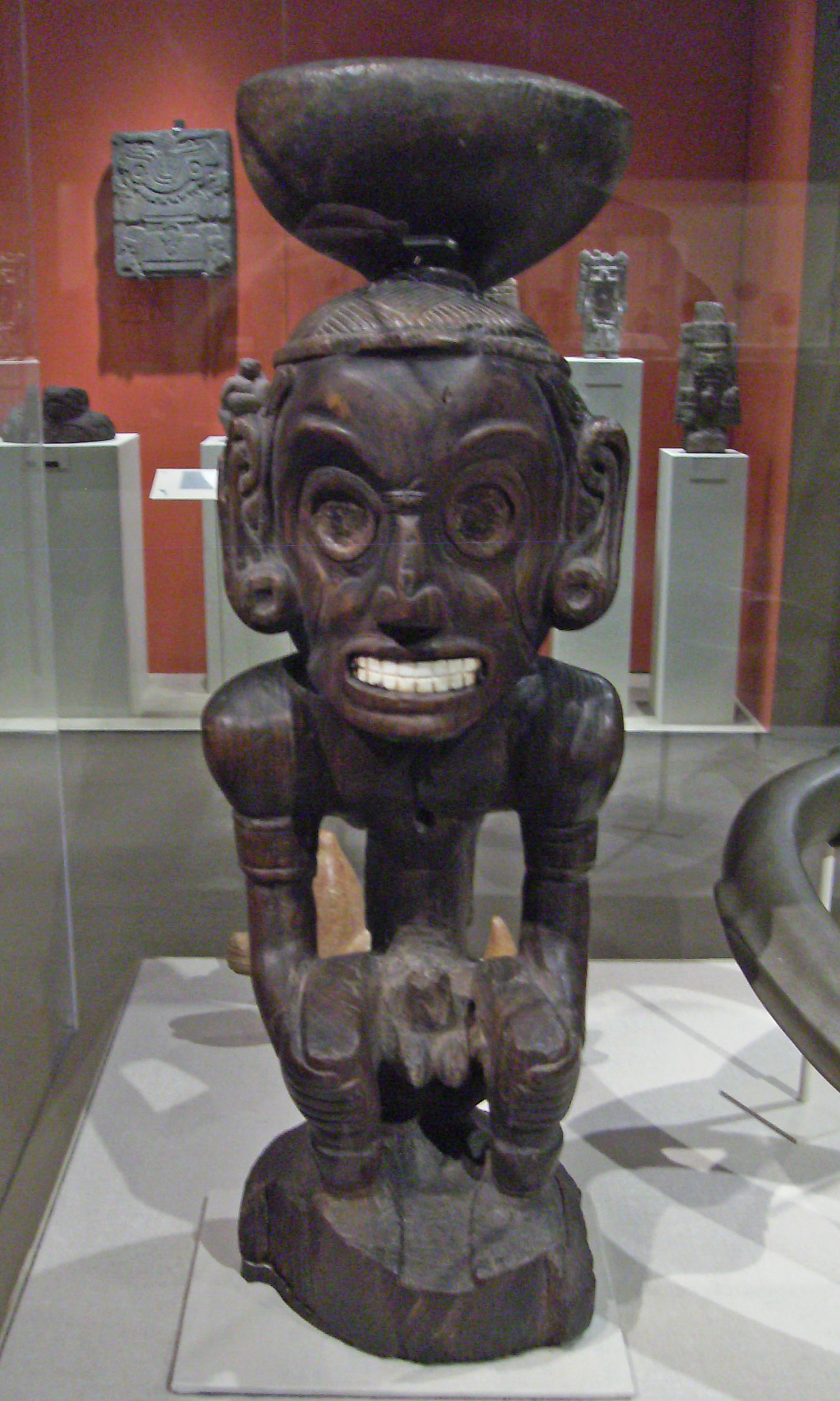 Deity Figure (Zemi) Dominican Republic(?): Taino 15th-16th century